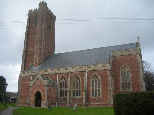 Parish Church of St. Mary the Virgin, Cannington